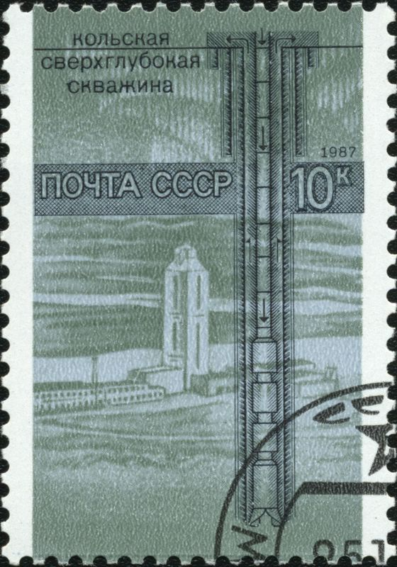 A USSR stamp, Science in USSR. Date of issue: 25th November 1987. Designer: A. Kernosov Michel catalogue numbers: 5774-5776. 10 K. deep dull green, blue-black and azure. Kolskaya borehole